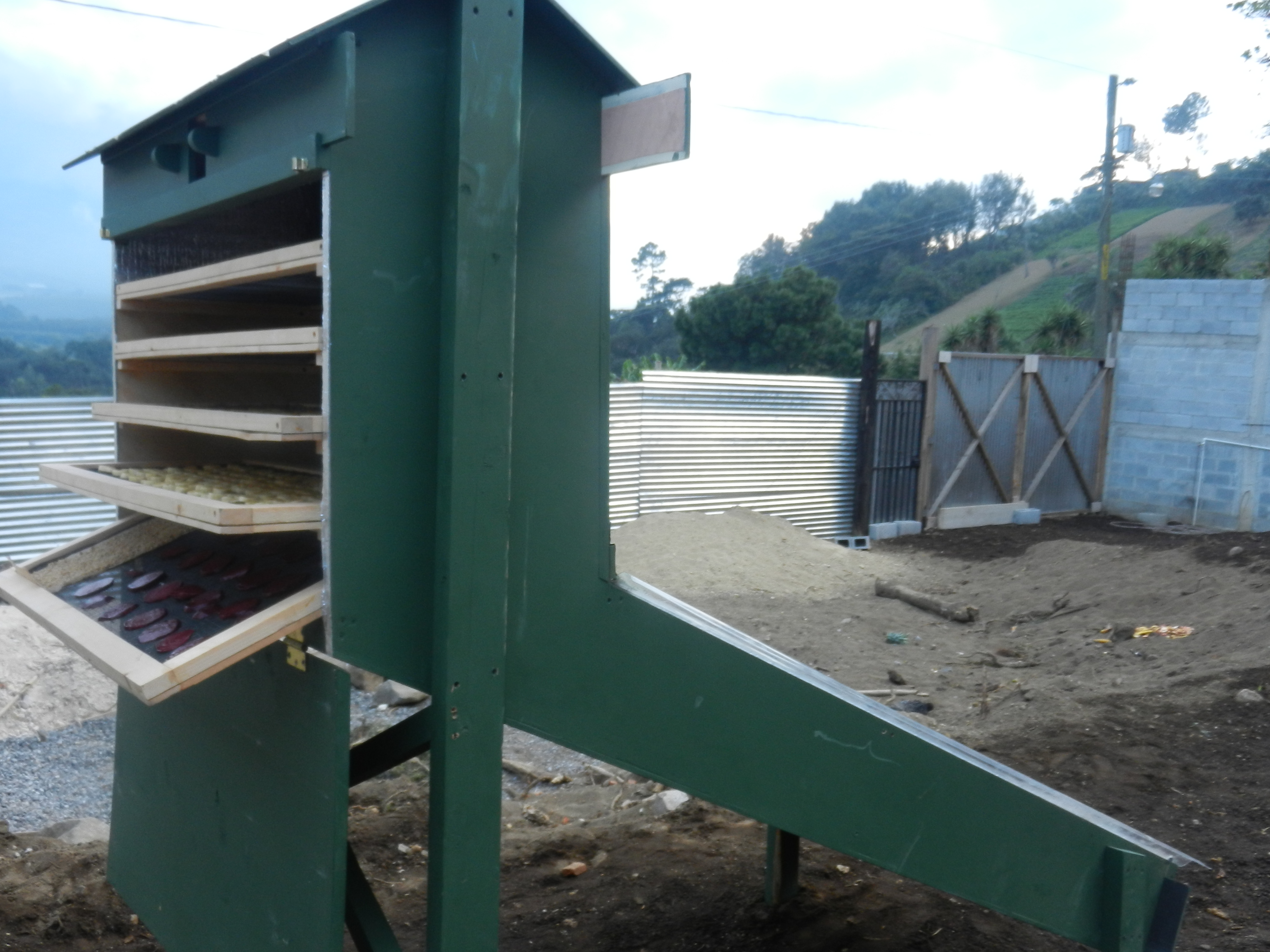 One of three solar dehydrators that are adding value to agricultural products in communities in Guatemala.